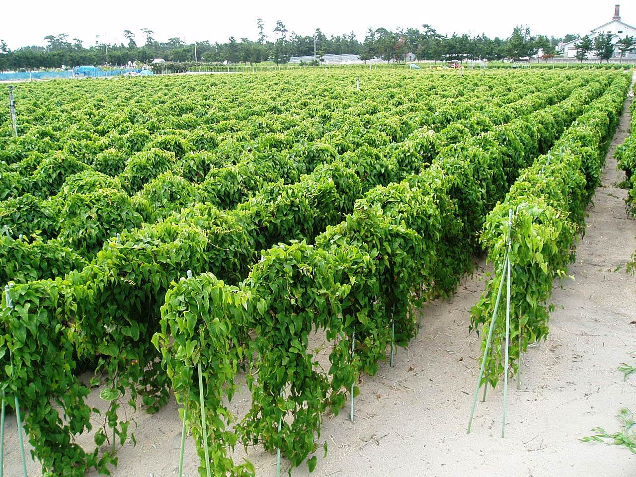 Fields of nagaimo (Chinese yam, Dioscorea polystachya) near Gosho Aoyama Manga Factory, located in Hokuei, Tottori, Japan.